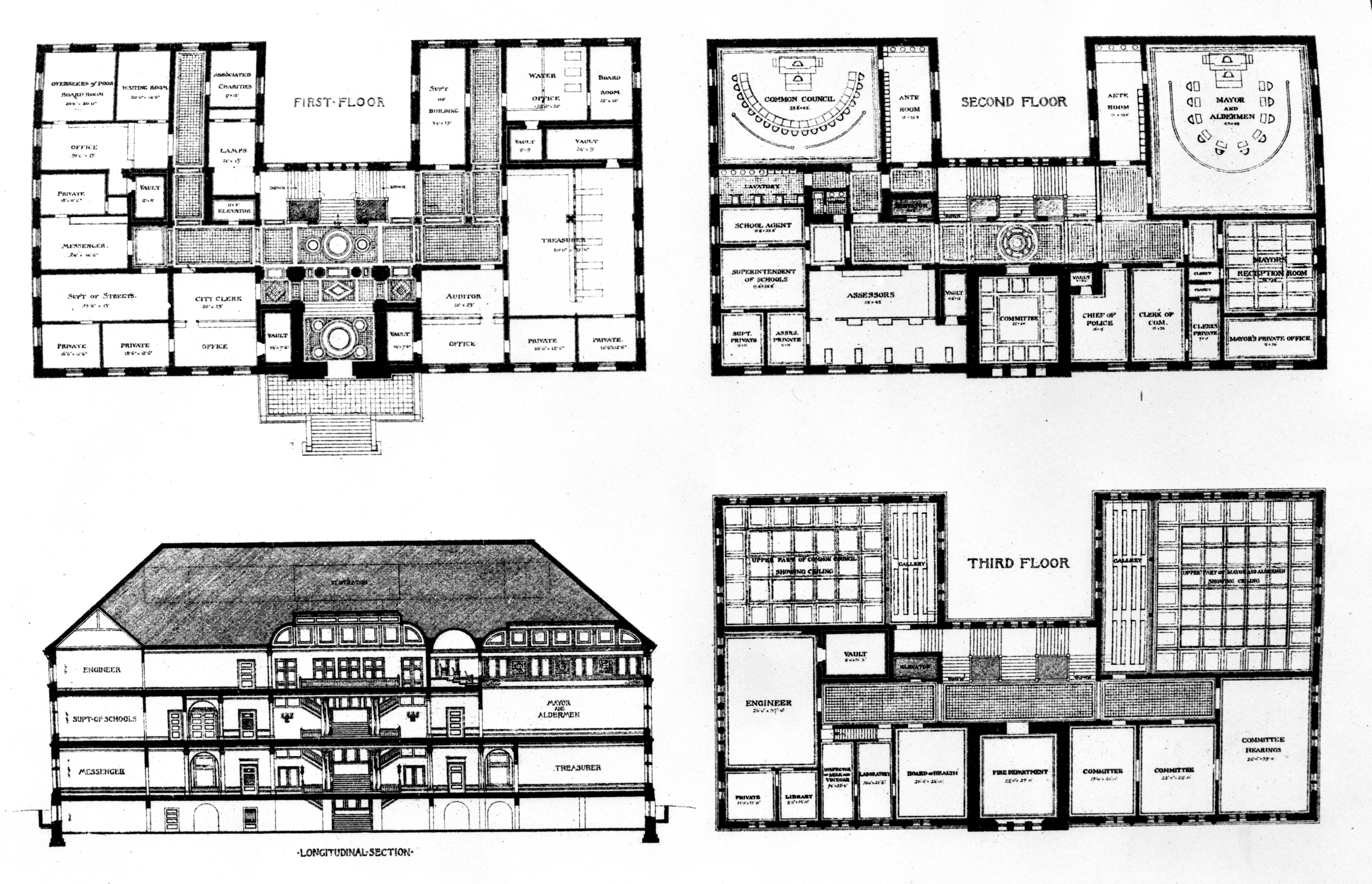 City Hall for Cambridge, Massachusetts - elevation and floor plans. This image is cropped from the Library of Congress online collection; see catalog information below (photo #6). It is in the public domain because it is a production of the United States Government. Item Title Cambridge City Hall, 795 Massachusetts Avenue, Cambridge, Middlesex County, MA Medium Photo(s): 6 (4 x 5 in. and 5 x 7 in.) Data Page(s): 5 plus cover page Call Number HABS MASS,9-CAMB,35- Created/Published Documentation compiled after 1933. Notes Survey number HABS MA-1038 Building/structure dates: 1889 initial construction Subjects MASSACHUSETTS--Middlesex County--Cambridge Related Names Alden & Harlow Longfellow Willcutt, S. D. Reproduction Number [See Call Number] Collection Historic American Buildings Survey (Library of Congress) Repository Library of Congress, Prints and Photograph Division, Washington, D.C. 20540 USA DIGID CONTENTS Photograph caption(s): 1. GENERAL EXTERIOR VIEW, LOOKING NORTHEAST 2. INTERIOR, MAIN ENTRANCE AND STAIRCASE 3. INTERIOR, COUNCIL CHAMBER, LOOKING NORTH 4. INTERIOR, MAYOR'S OFFICE 5. PHOTOCOPY, LONGITUDINAL SECTION, FIRST, SECOND, THIRD FLOOR PLANS, FROM AMERICAN ARCHITECT AND BUILDING NEWS, VOL. 24, No. 657-JULY 28, 1888 6. PHOTOCOPY FROM AMERICAN ARCHITECT AND BUILDING NEWS, VOL. 24, NO. 657, JULY 28, 1888 CARD # MA0217